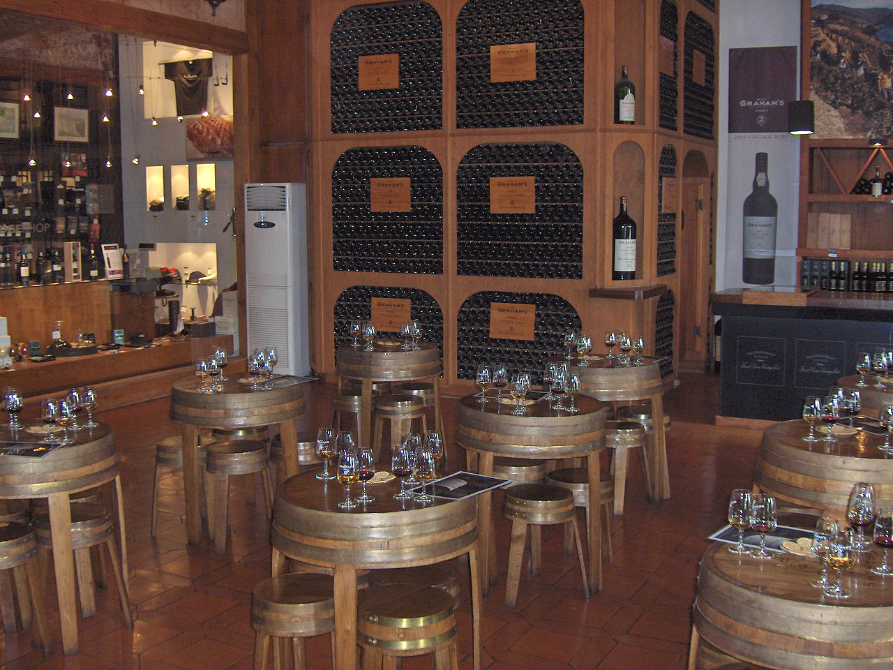 Tasting room of port wine in the wine cellar (cave) of a producer; Porto, Portugal